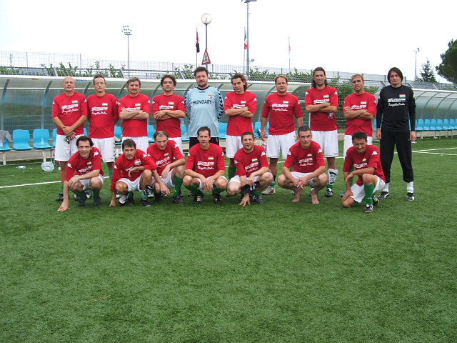 Football team of Hungarian Writers, Firenze